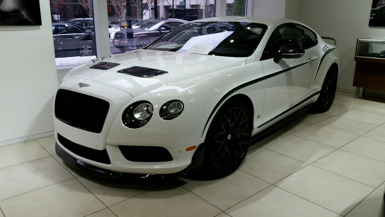 A Bentley Continental GT3-R at Gold Coast Auto Gallery in Chicago, Illinois